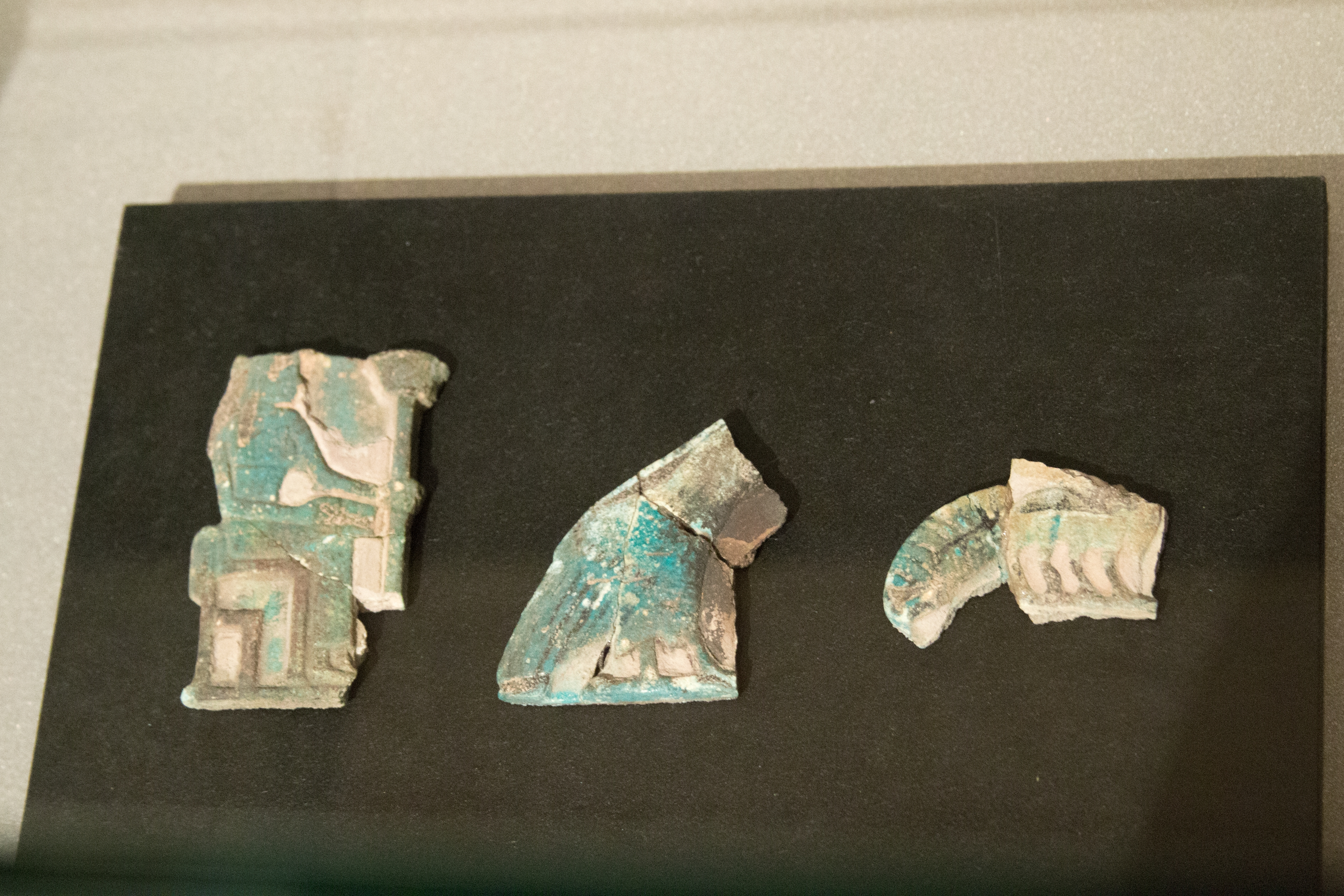 Faience inlays. Lower Egypt, Abusir, funerary complex of Queen Khentkaus II. Old Kingdom, 5th Dynasty (2510-2365 BC). Egyptian faience. Expedition Czechoslovak Institute of Archaeology. Prague, NM-P NpM 6496.